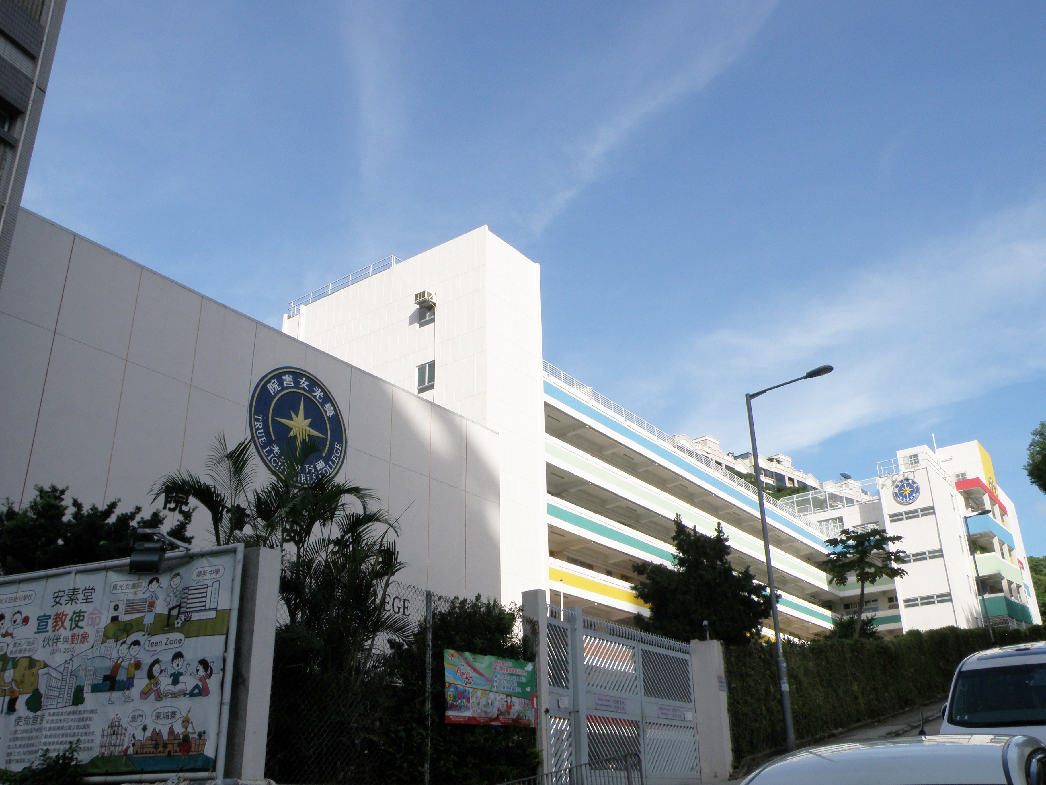 True Light Girls' College, Hong Kong.